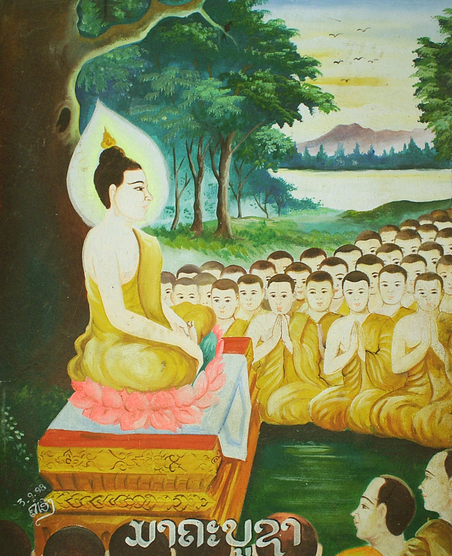 Painting of the spontaneous gathering of 1250 Arahants (or Arhats) (Fully Enlightened Ones). Each of these Arahants came to see the Buddha at the full moon of the Indian month of Magha, without arranging with eachother to do so. This is currently remembered every year on the Buddhist holy day called 'Magha Puja', which usually falls in the month of february